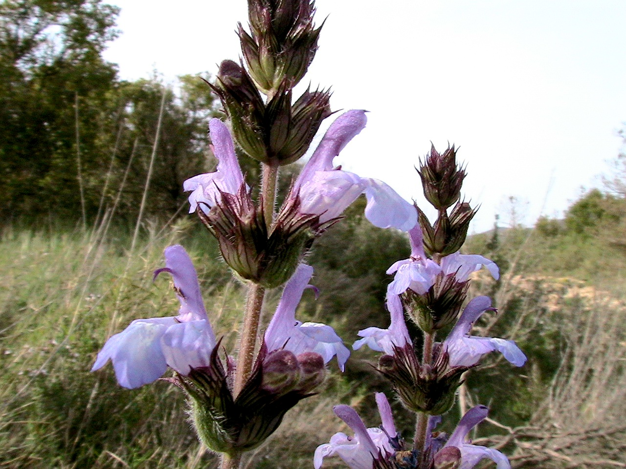 Salvia verbenaca. In Camarasa (Noguera- Catalunya). To 695 m. altitude